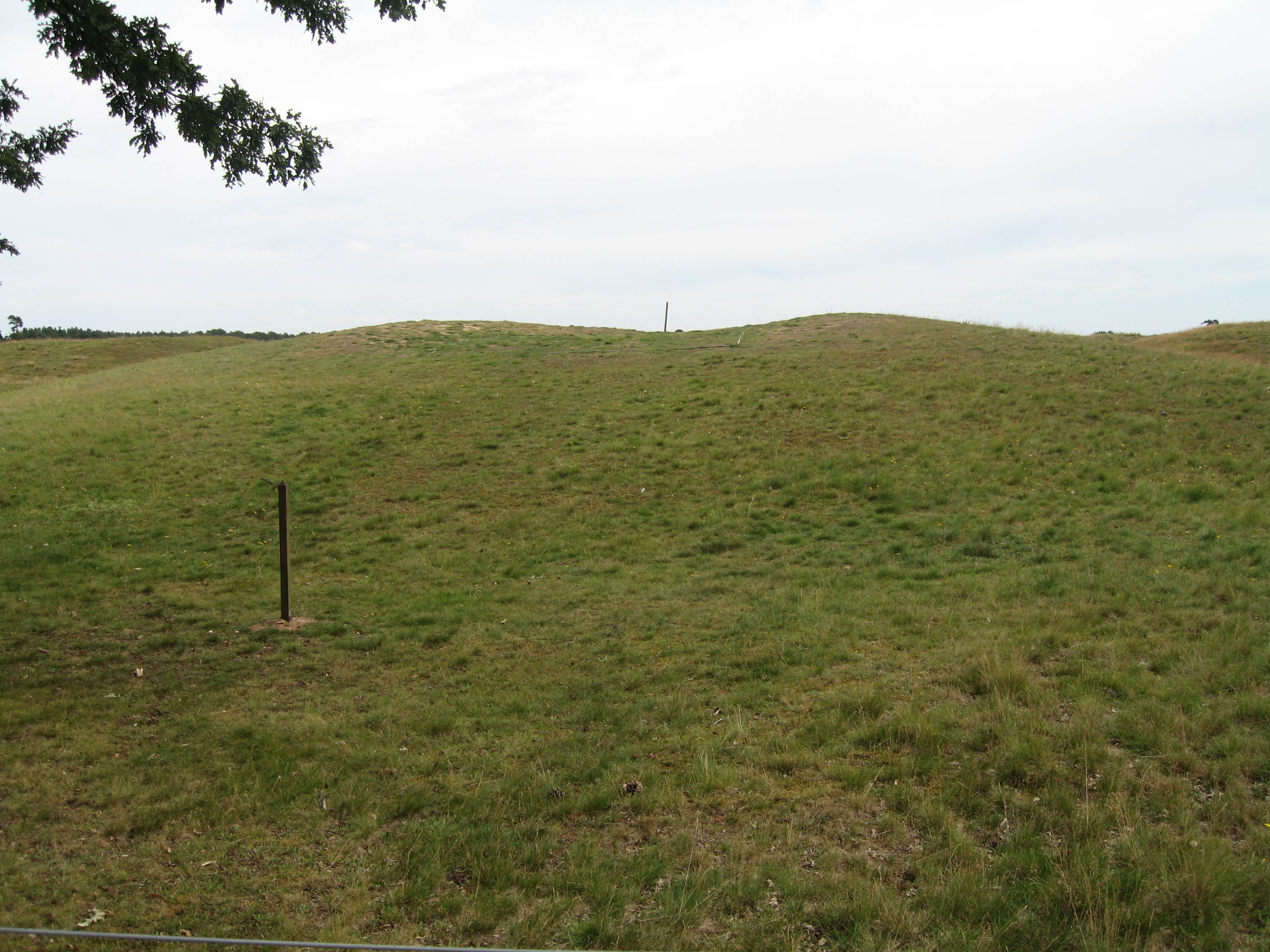 Rædwald's burial mound (Mound I), Sutton Hoo